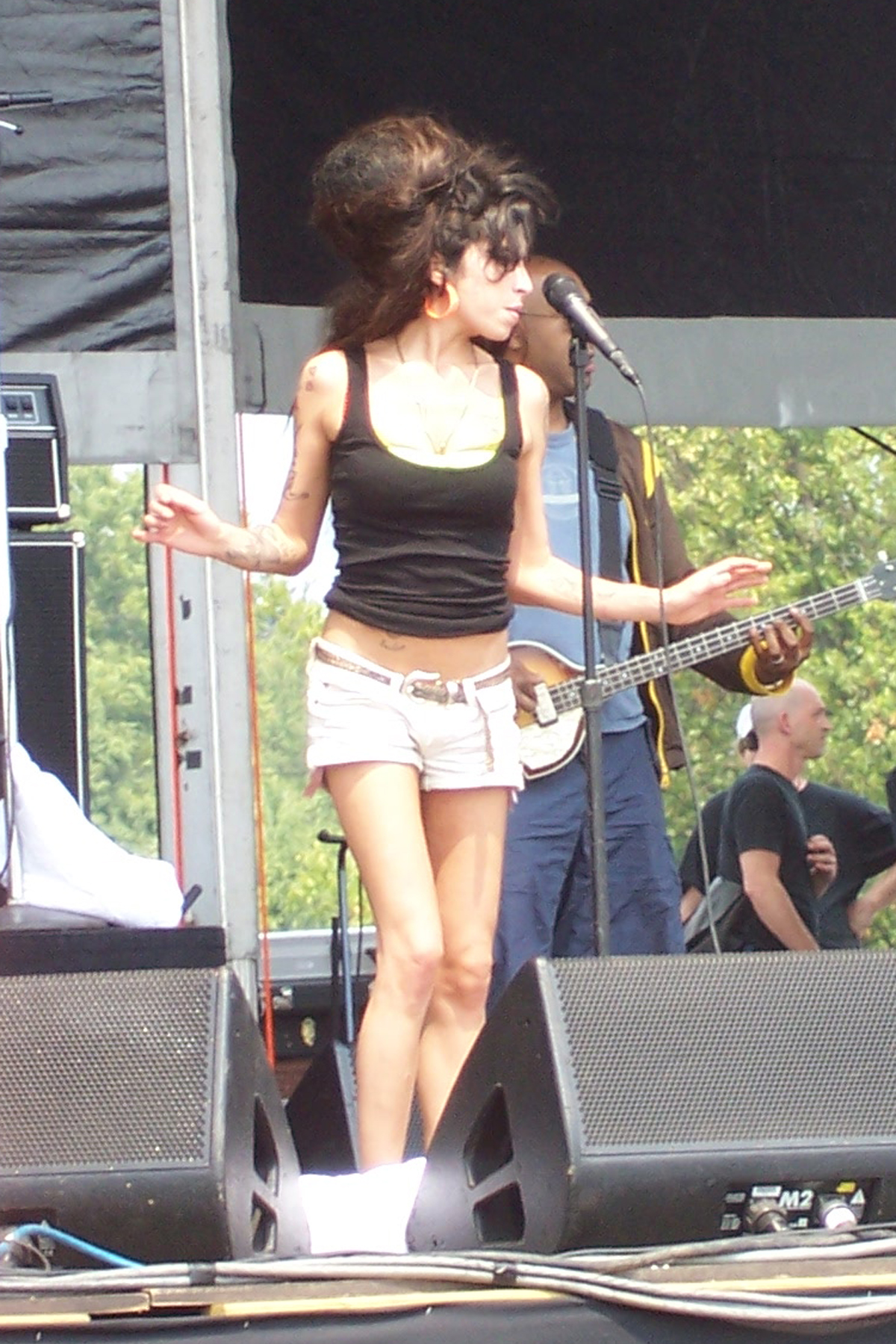 Amy Winehouse at the Virgin Festival.